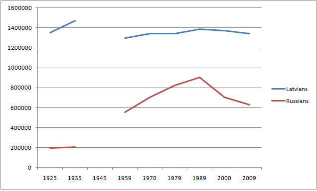 Historical evolution of Latvia's two largest ethnic groups: Latvians and Russians. Source: English language Wikipedia